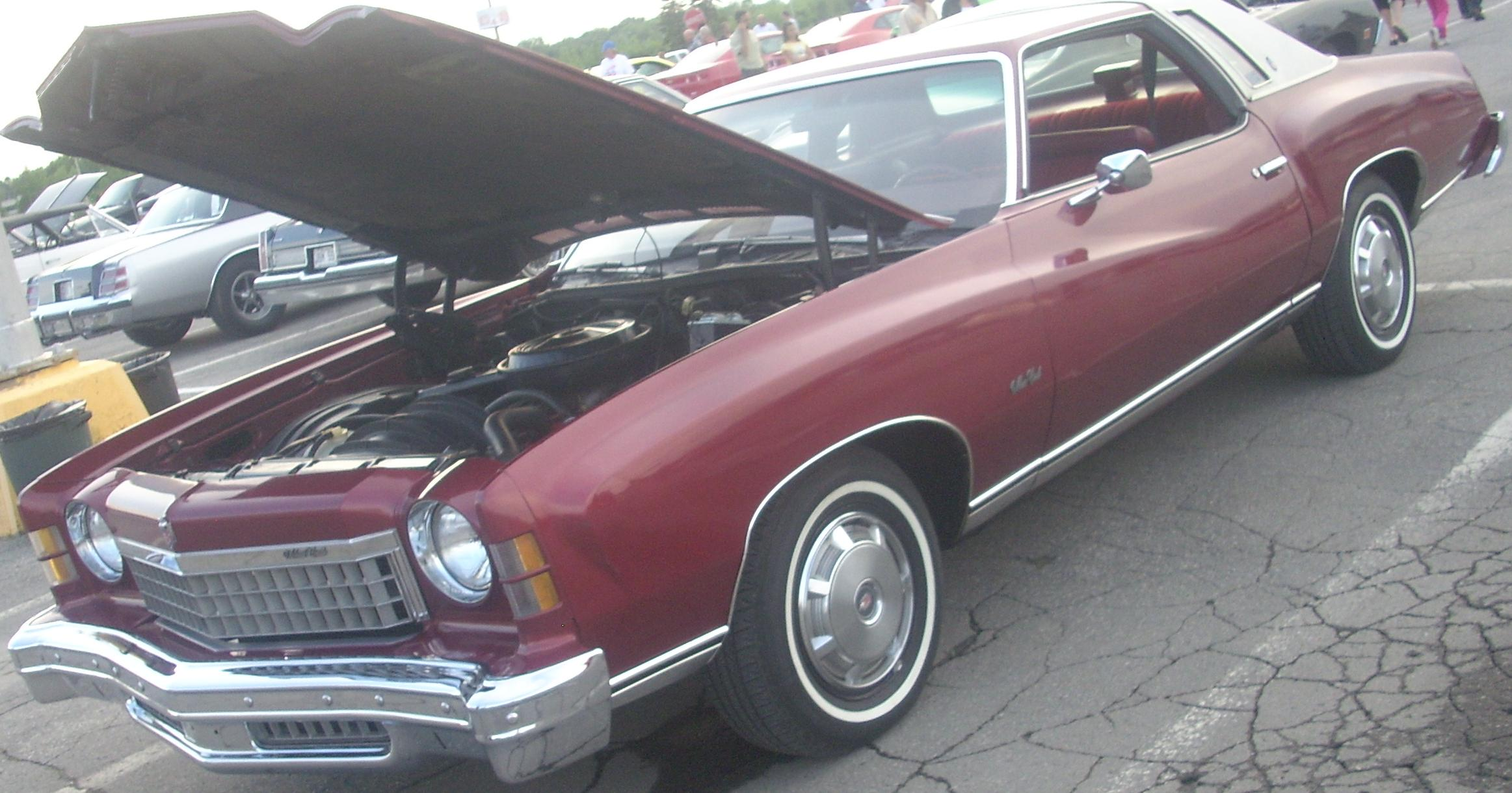 Chevrolet Monte Carlo photographed in Laval, Quebec, Canada at Les chauds vendredis 2010.